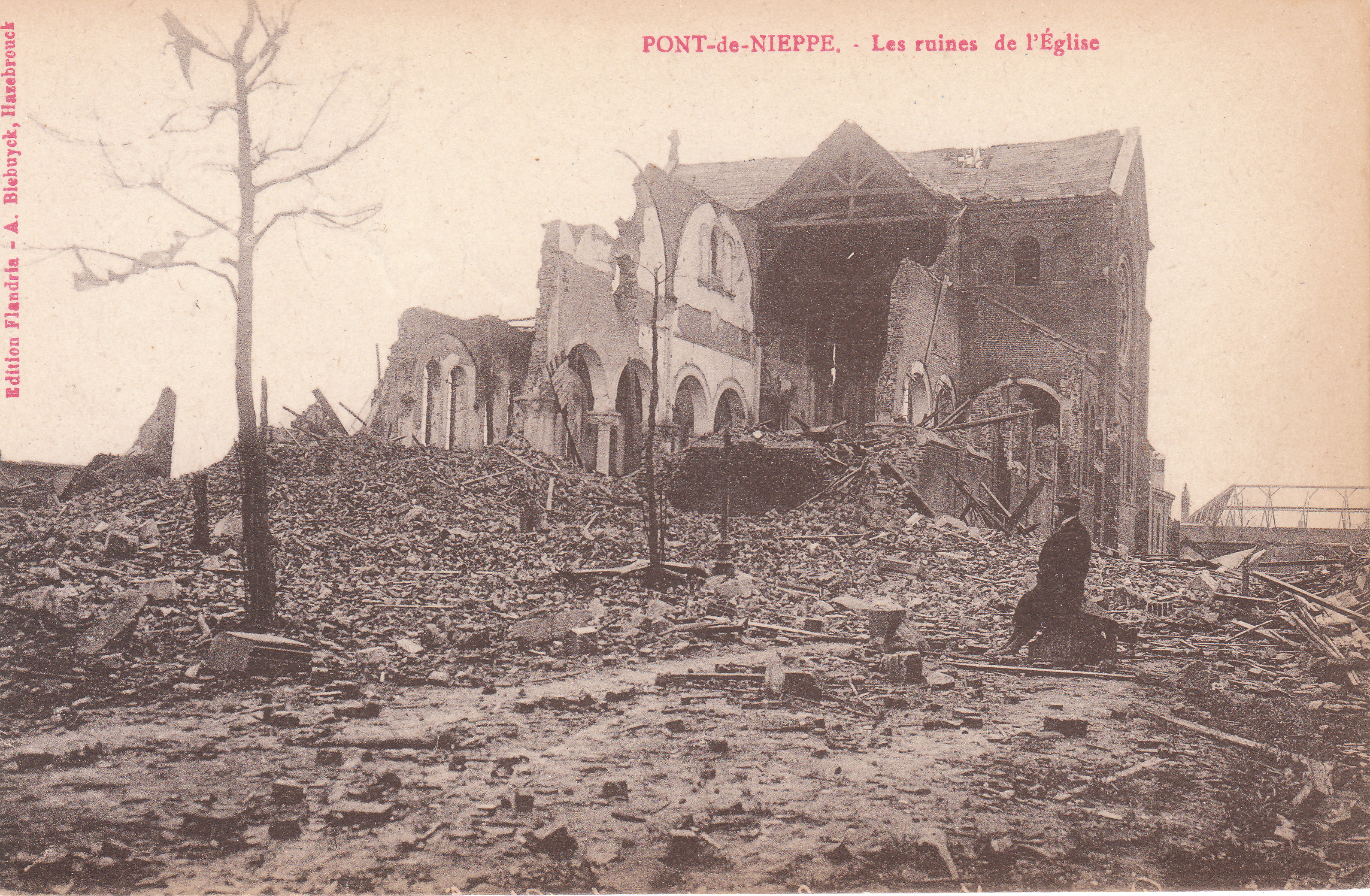 Ruins of the church of "Pont de Nieppe" in Nieppe, in the north of the France; picture taken just after WWI